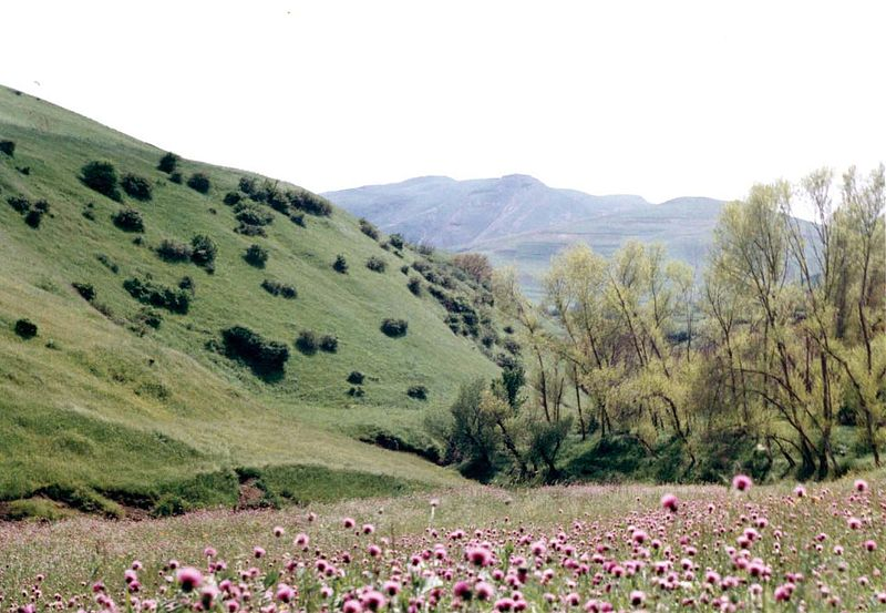 Qozlu is bietifull village in Germi county